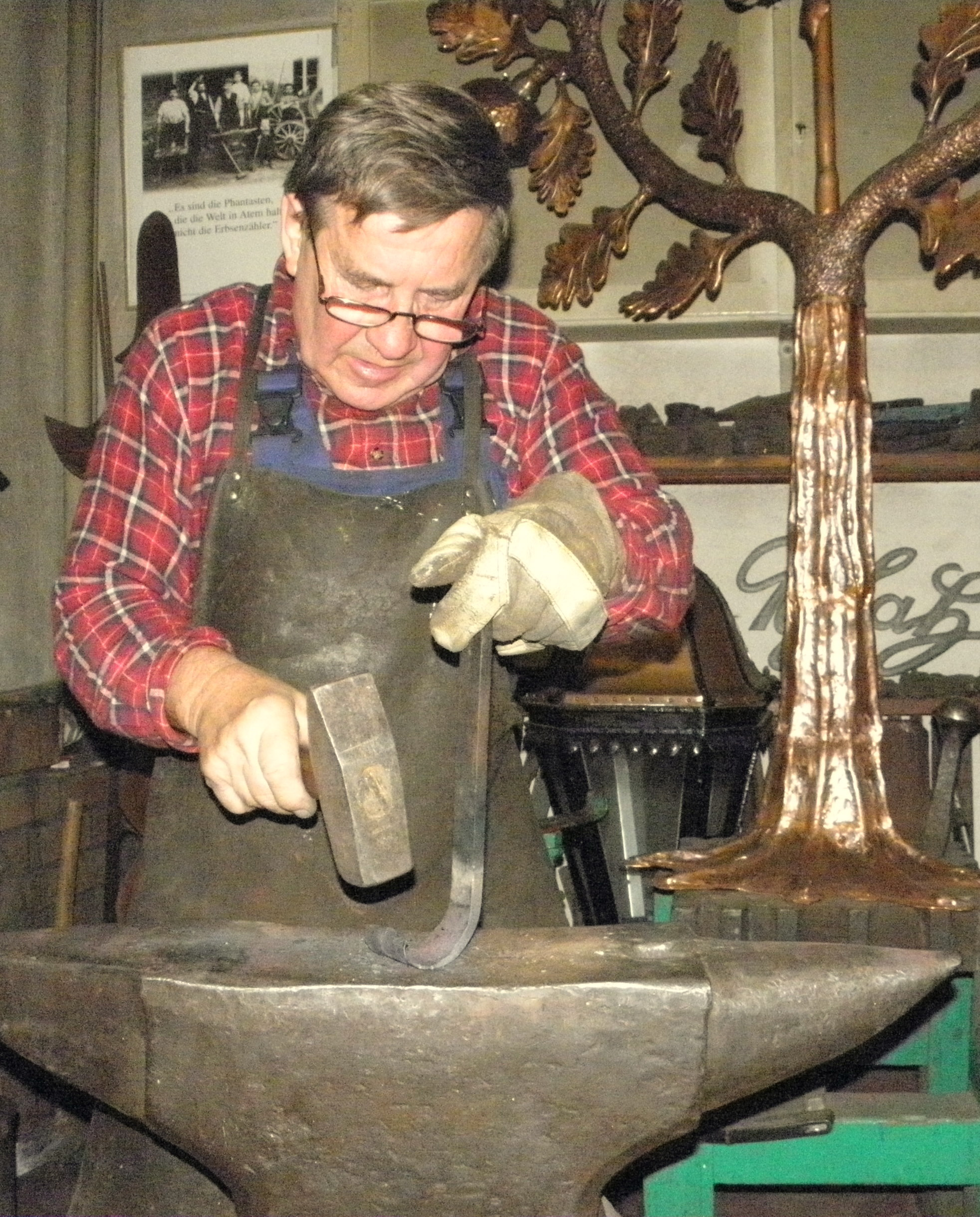 Artist blacksmith Wilfried Schwuchow in his smithy in Angermünde, State Brandenburg, Germany.